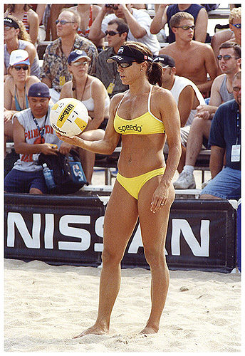 Holly McPeak, professional volleyball player